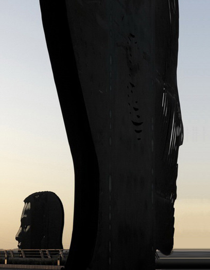 Istvan Kulinyi - Pannon GSM Heads, 2009